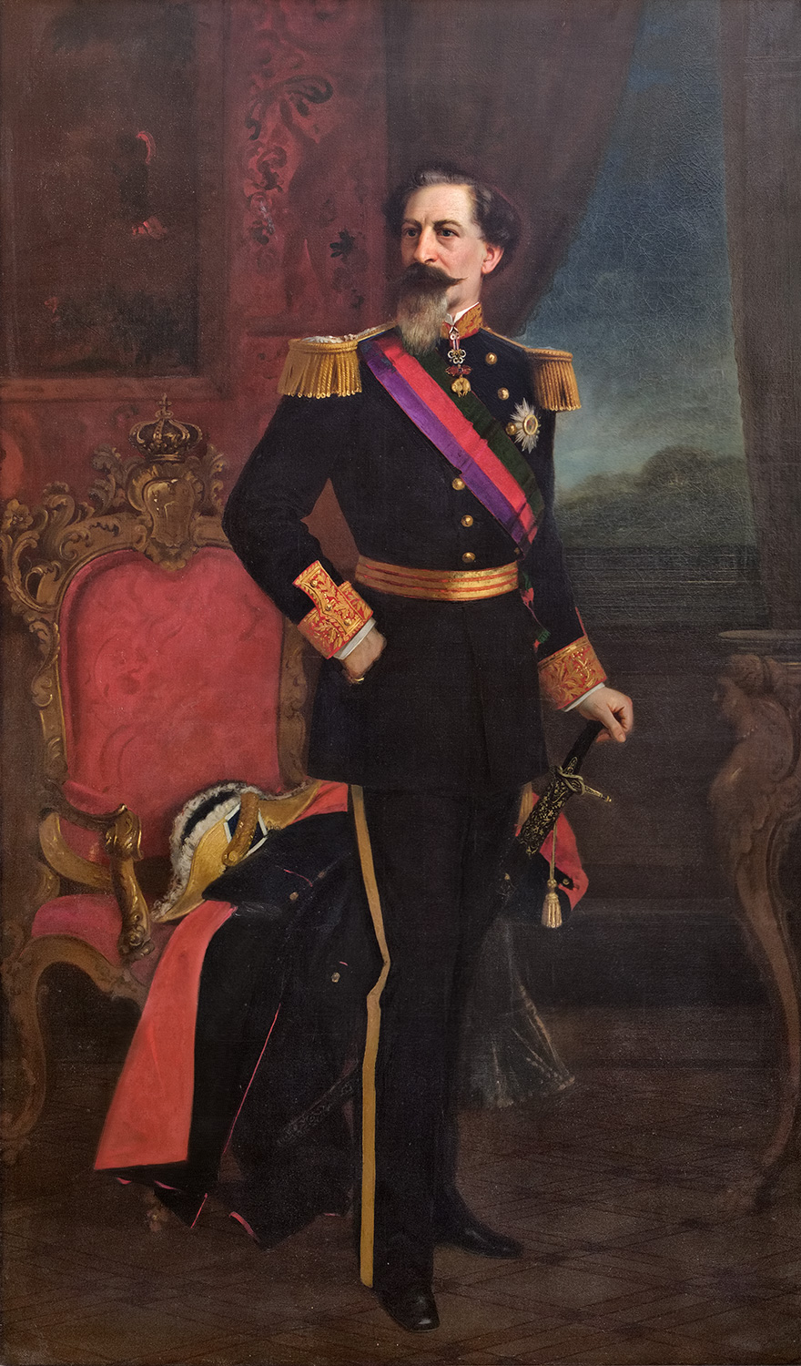 Ferdinand of Saxe-Coburg and Gotha, King of Portugal.